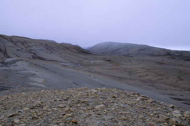 Axel Heiberg Island - Geodetic Hills